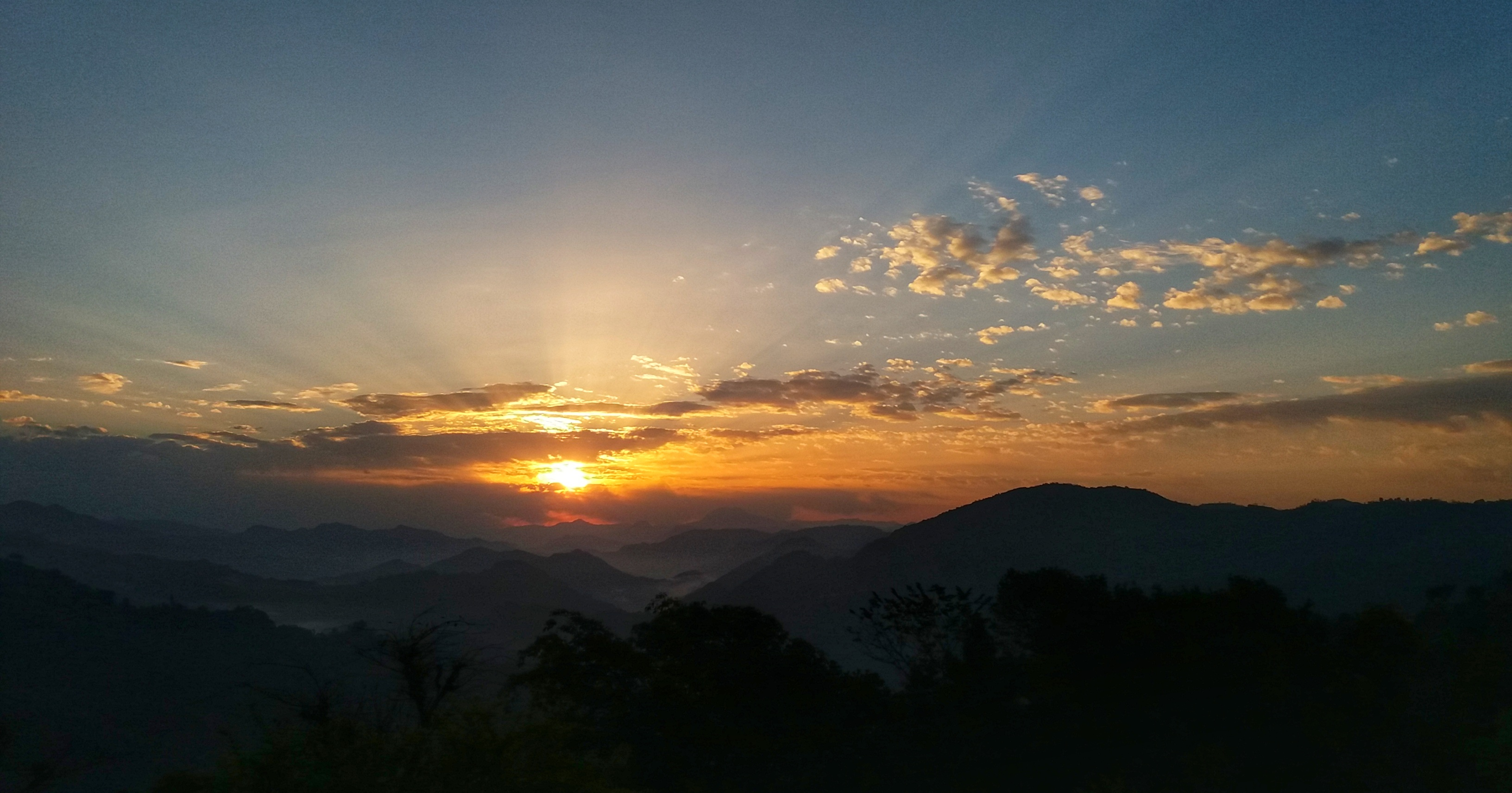 Beauty sunrise views from Saldanda village of Syangja, Nepal